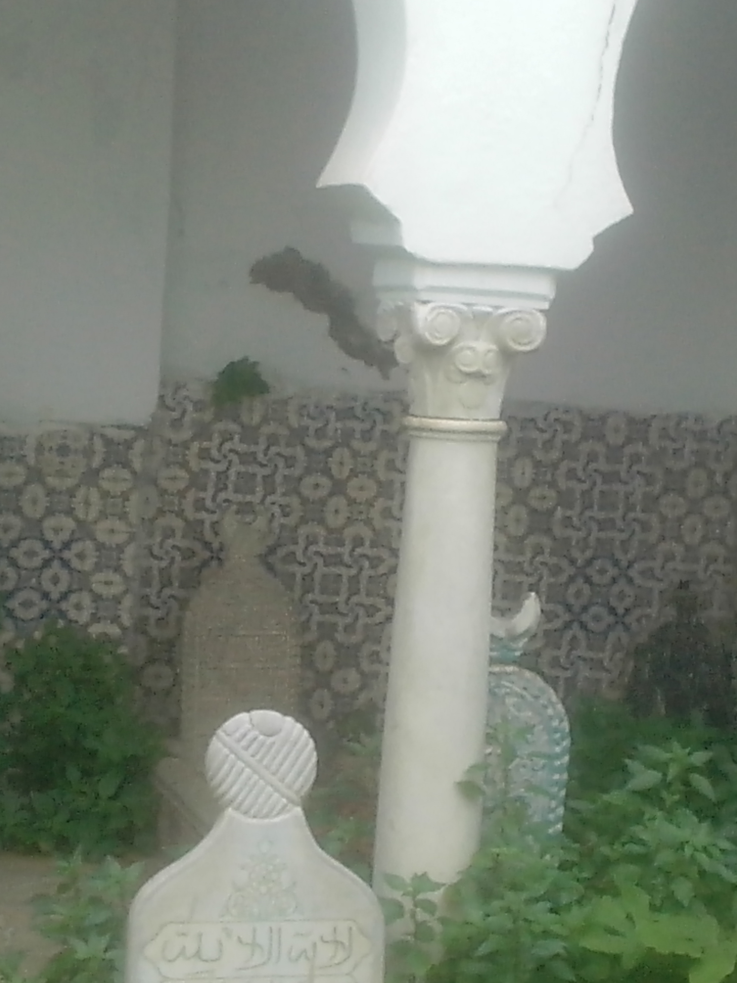 tombeau de ahmed bey